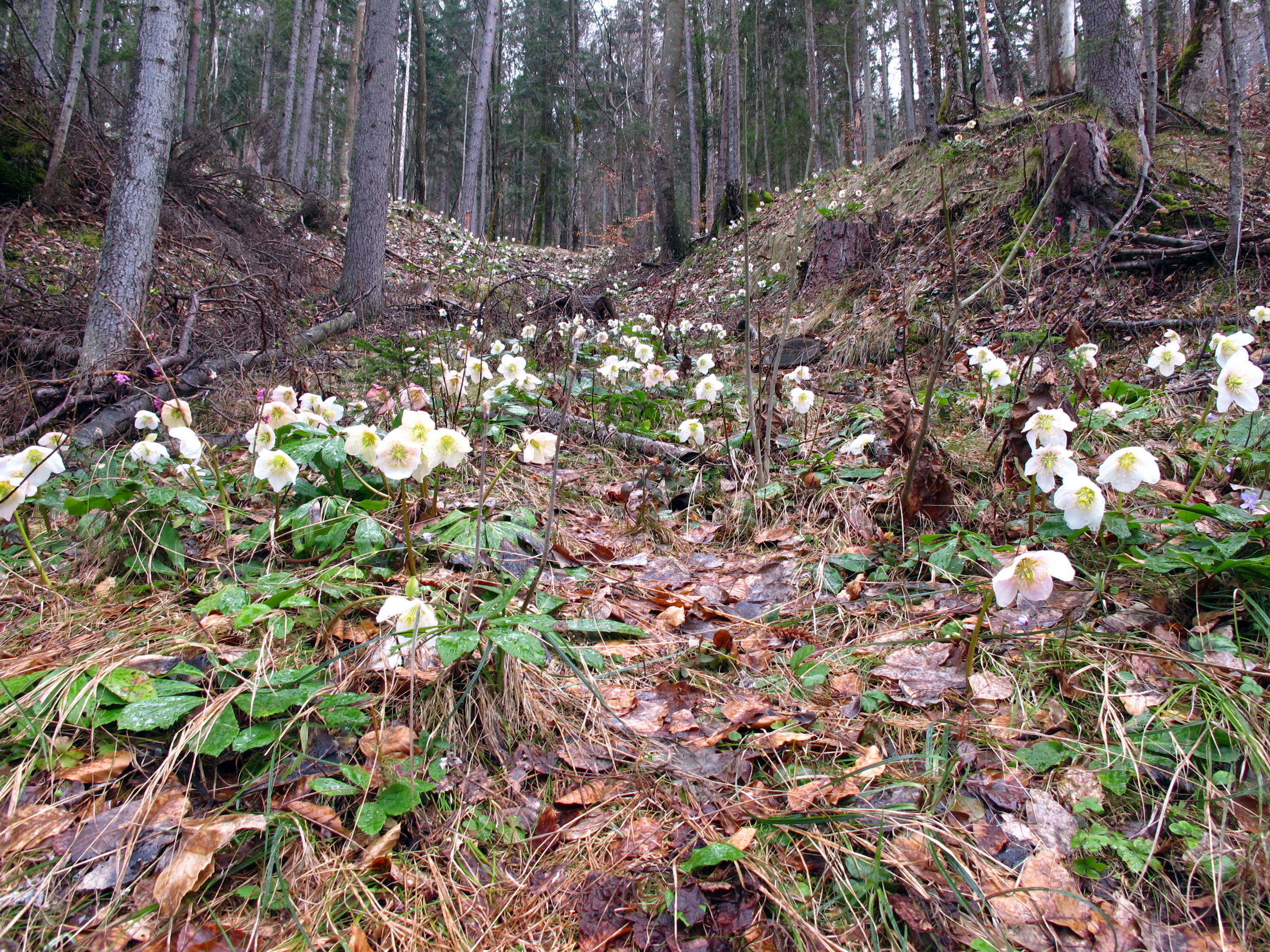 Field of Helleborus niger near Ferlach / Carinthia / Austria / European Union.